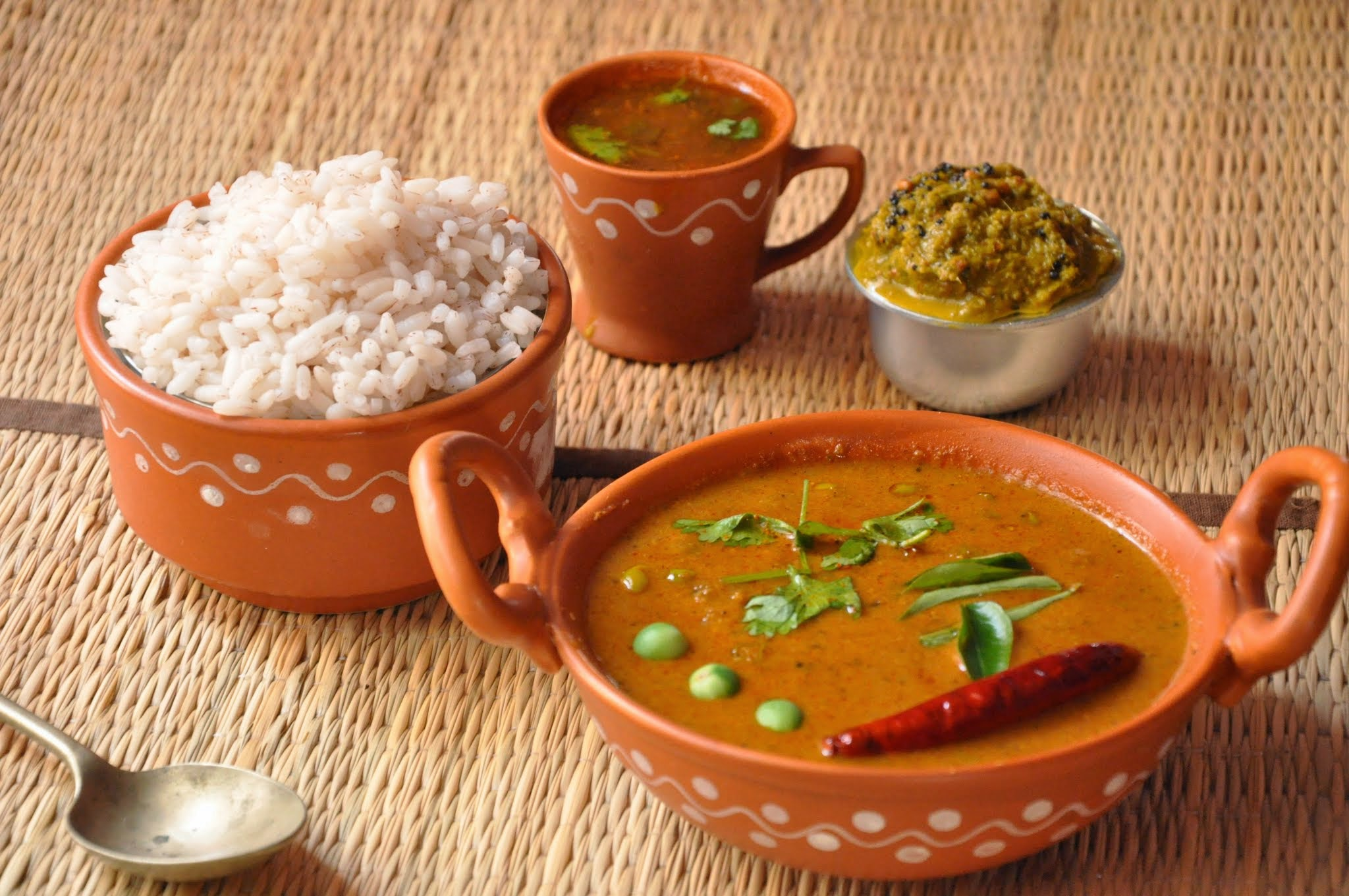 traditional kerala rice ( steam cooked rice) with sundakai puli kara kulampu, tomota rasam, pirantai thuvaiyal